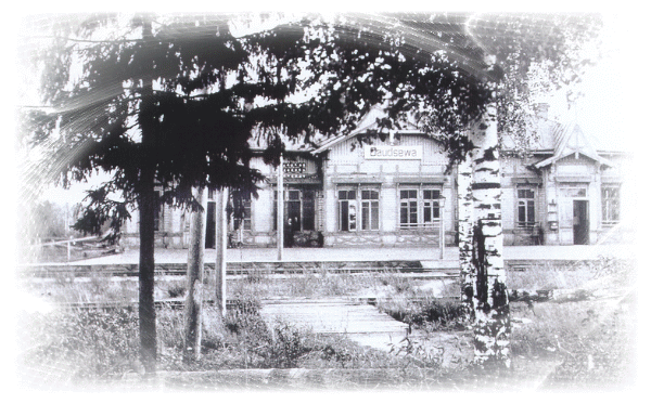 train station